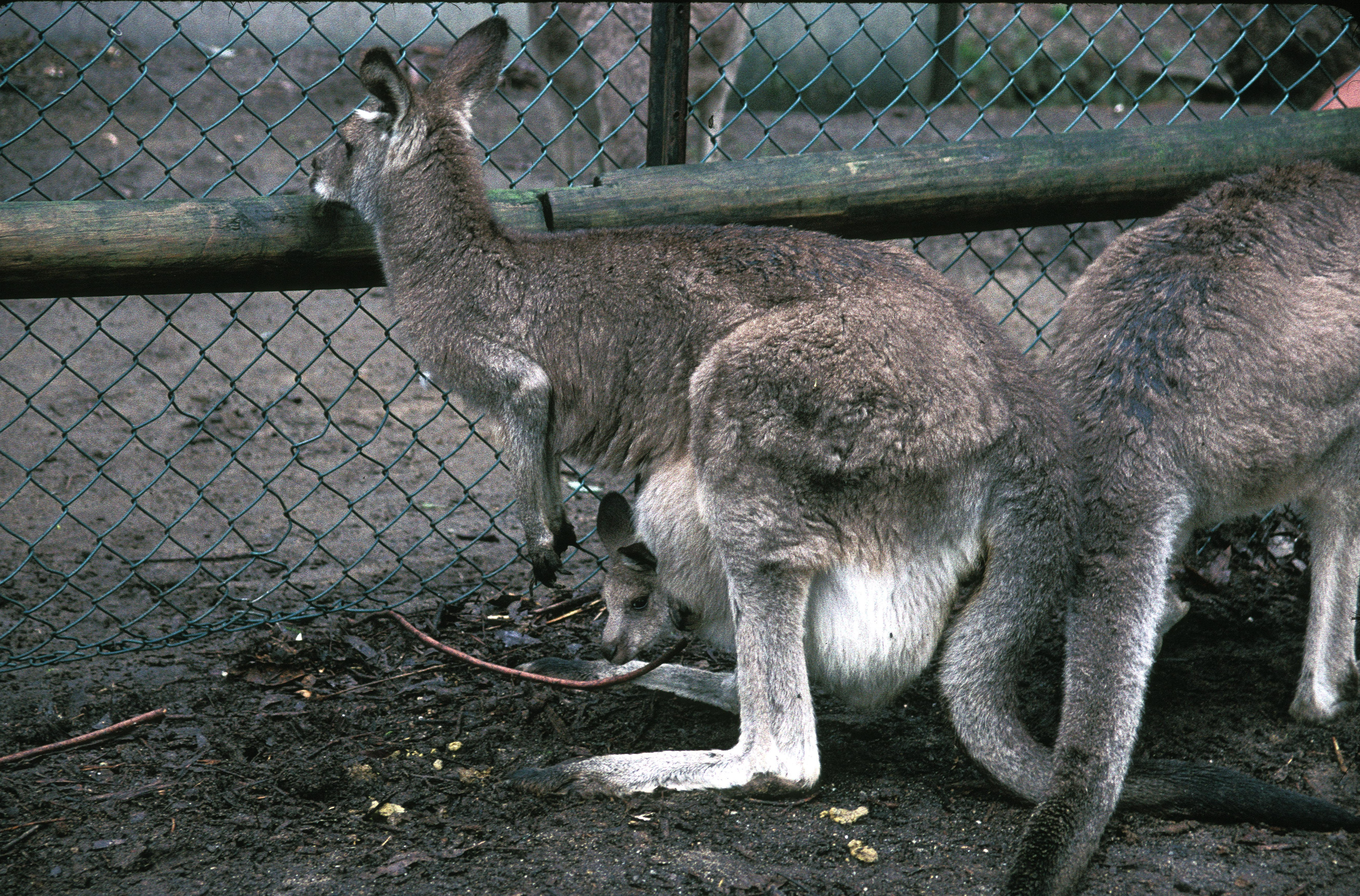 FEMALE KANGAROO WITH A JOEY IN THE POUCH at Koala Park near Sydney